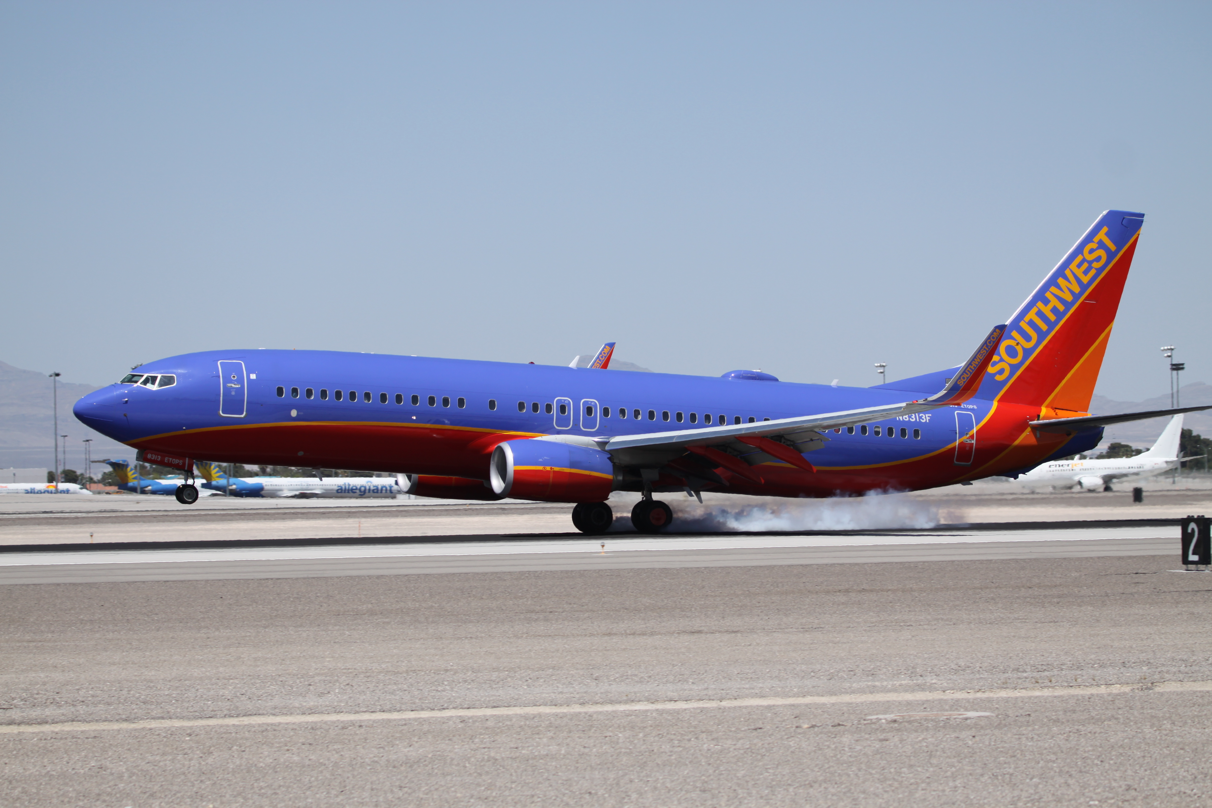 At Las Vegas McCarran International Airport